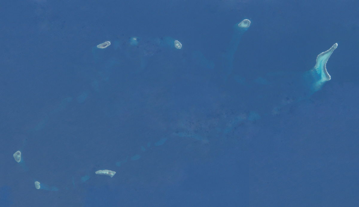 Tizard Bank is an atoll consisting of some coral islands/cays and coral reefs of Spratly Islands.